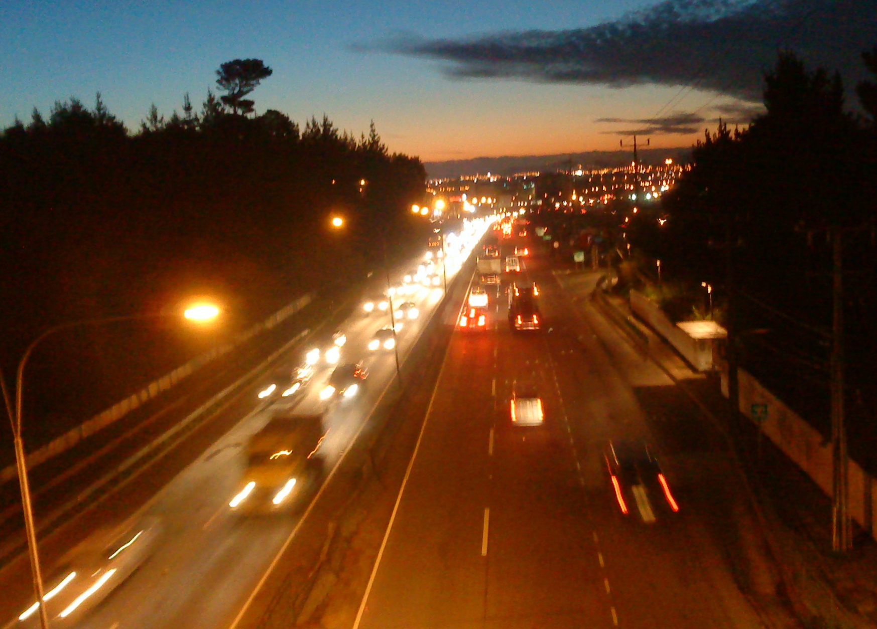 sdfsd